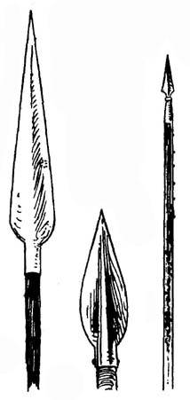 Type of pole weapon, illustration from a book "Handbuch der Waffenkunde. Das Waffenwesen in seiner historischen Entwicklung vom Beginn des Mittelalters bis zum Ende des 18. Jahrhunderts" by Wendelin Boeheim, Leipzig, 1890